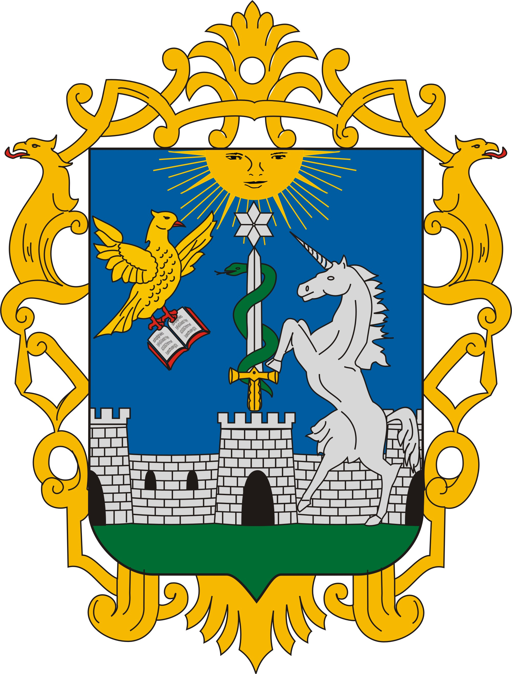 Coat of arms of Eger, Hungary.